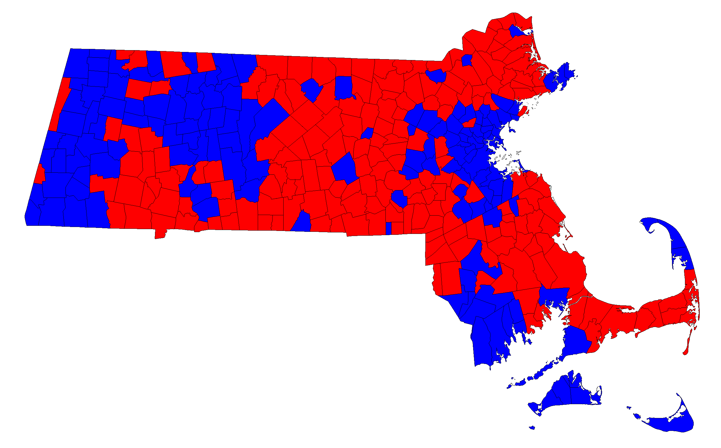 Results of the 1996 United States Senate election in Massachusetts. Towns in blue won by Kerry, red by Weld. Data procured at